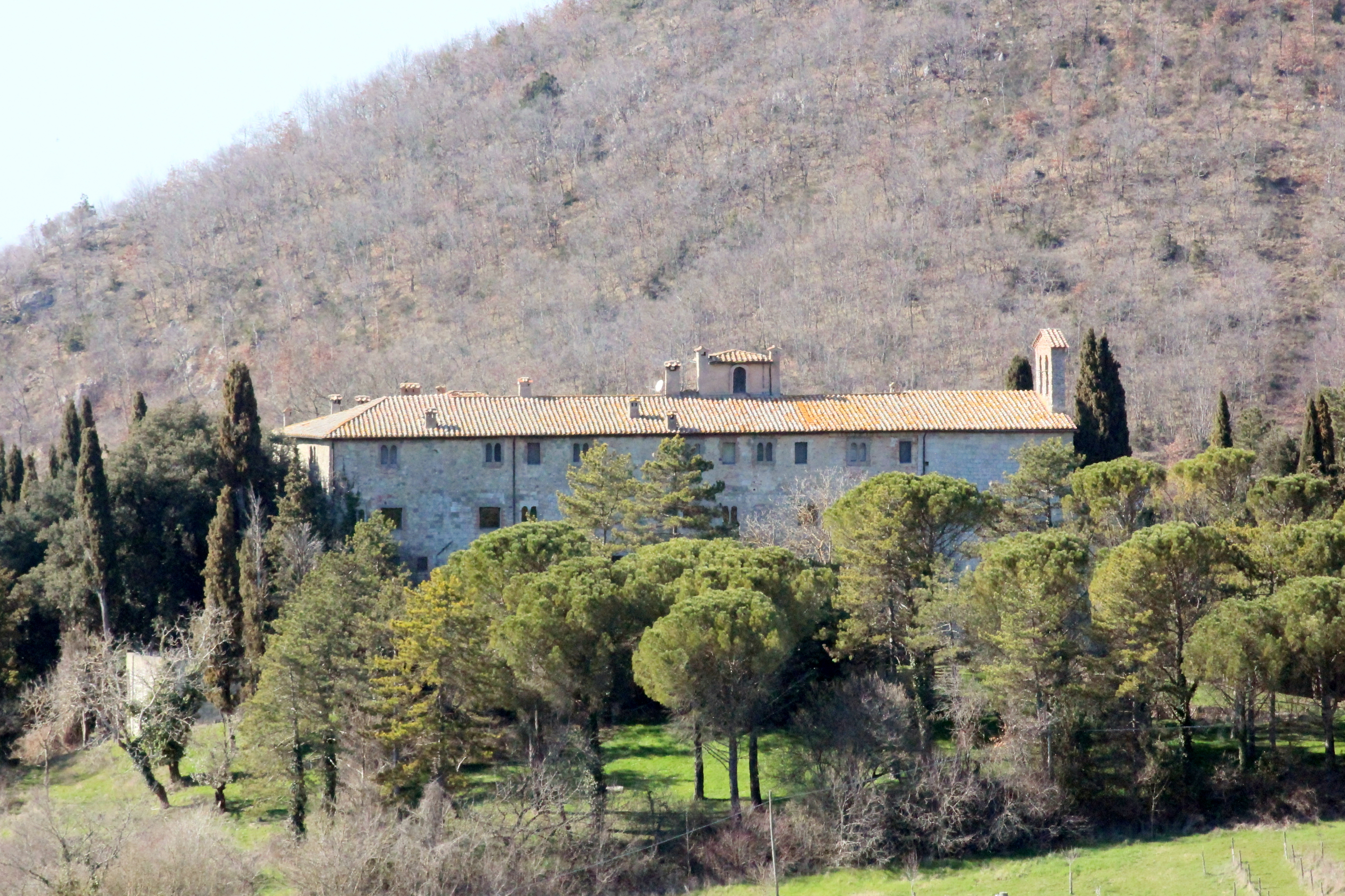 Church/Abbey Abbazia della Santissima Trinità di Spineta, outside Sarteano on the road to Radicofani, Province of Siena, Tuscany, Italy